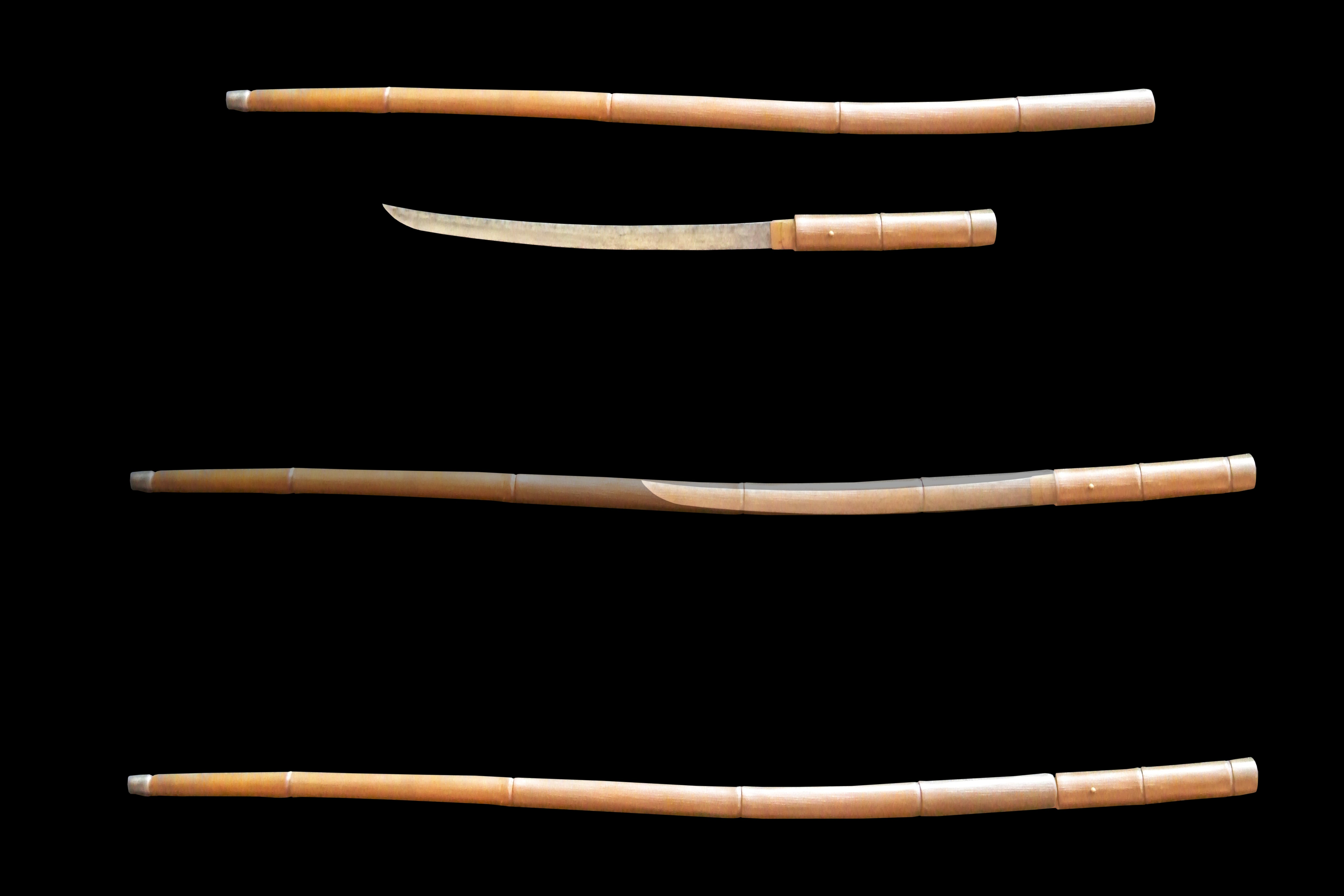 Japanese sword cane "shikomizue"